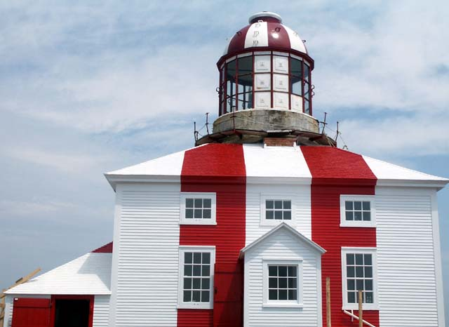 Lighthouse of Bonavista, Newfoundland and Labrador, Canada. Photo taken in June 2002.